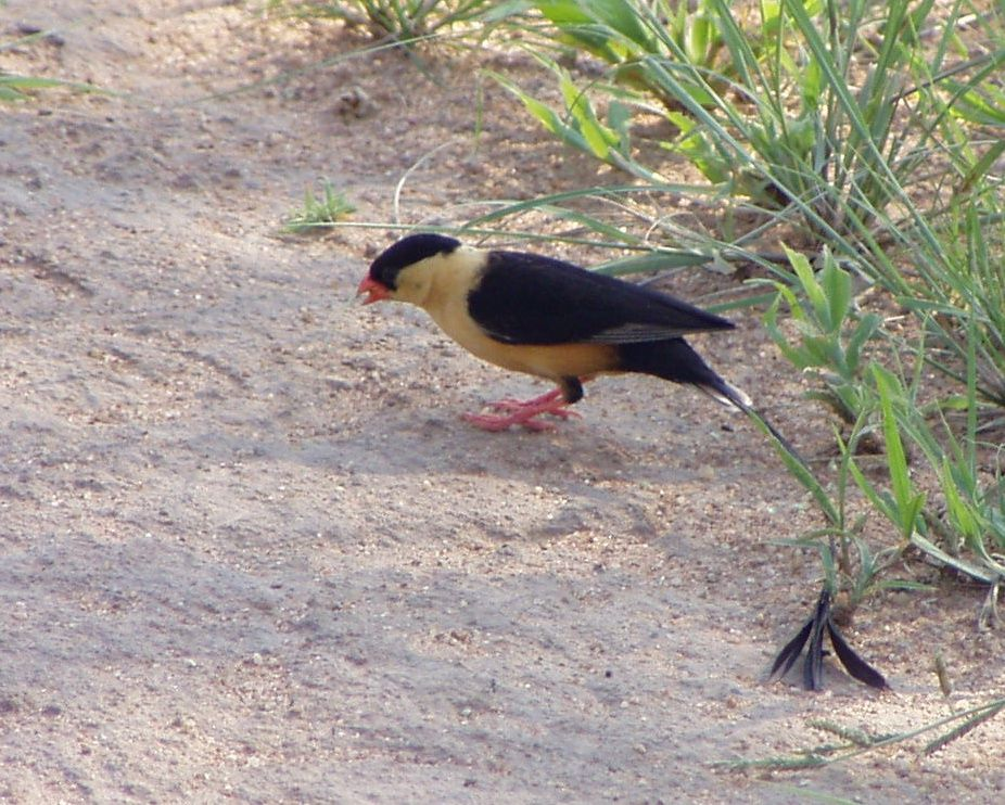 Male Shaft-tailed Whydah Vidua regia in breeding plumage. At Mabalingwe Nature Reserve, Limpopo Province, South Africa